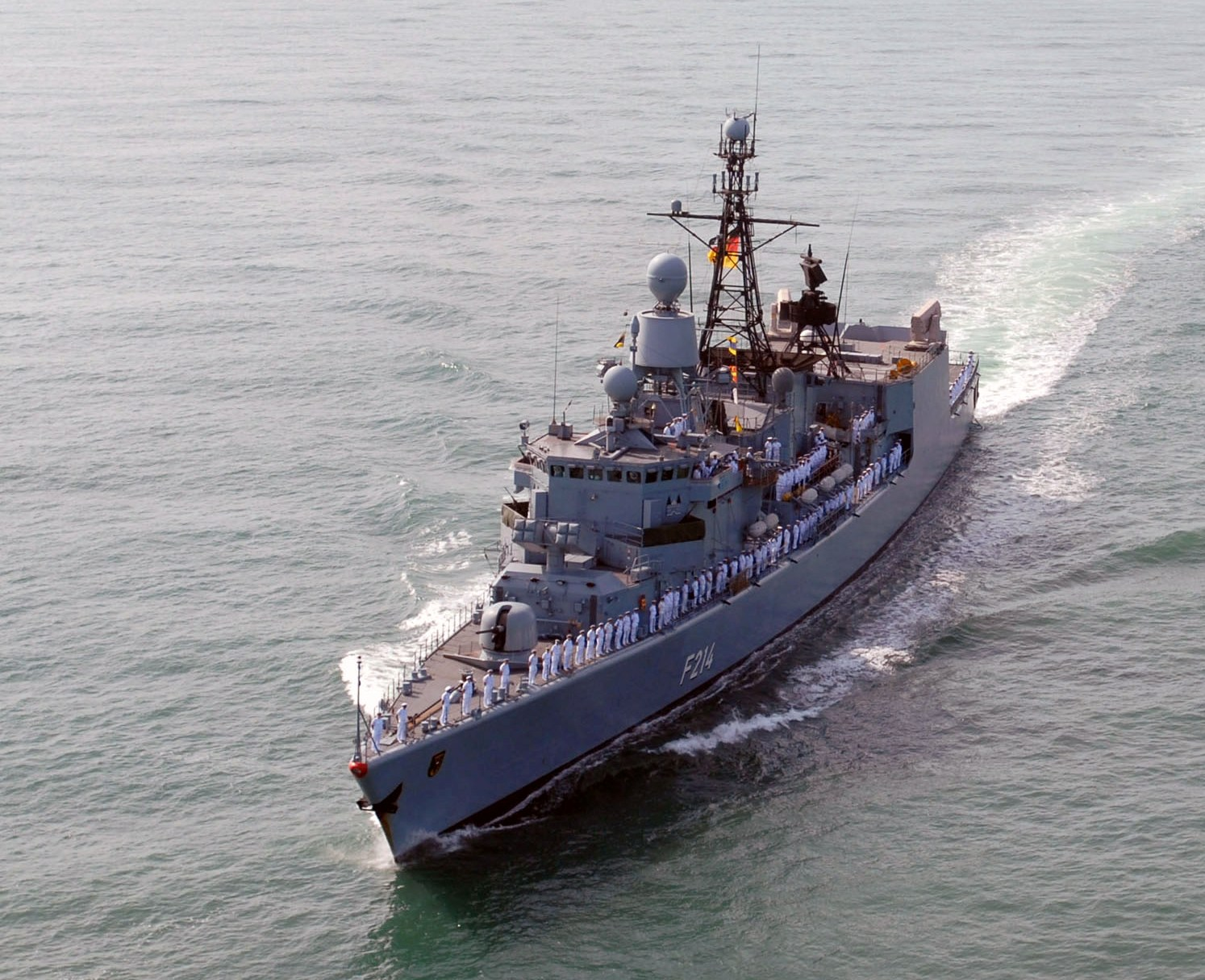 The German frigate Lübeck (F214), along with ships from other countries participating in Exercise "Unitas Gold", takes part in a parade of ships just off the coast of Jacksonville, Florida (USA), on 4 May 2009. The Jacksonville area hosted maritime forces from Argentina, Brazil, Canada, Chile, Colombia, Ecuador, Germany, Mexico, Peru, the United States and Uruguay for the 50th iteration of the annual multinational maritime exercise "UNITAS".